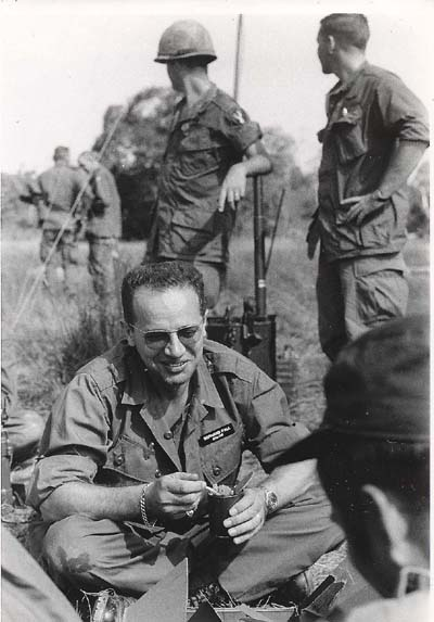 Bernard B. Fall lunches with US Army troops in Vietnam.